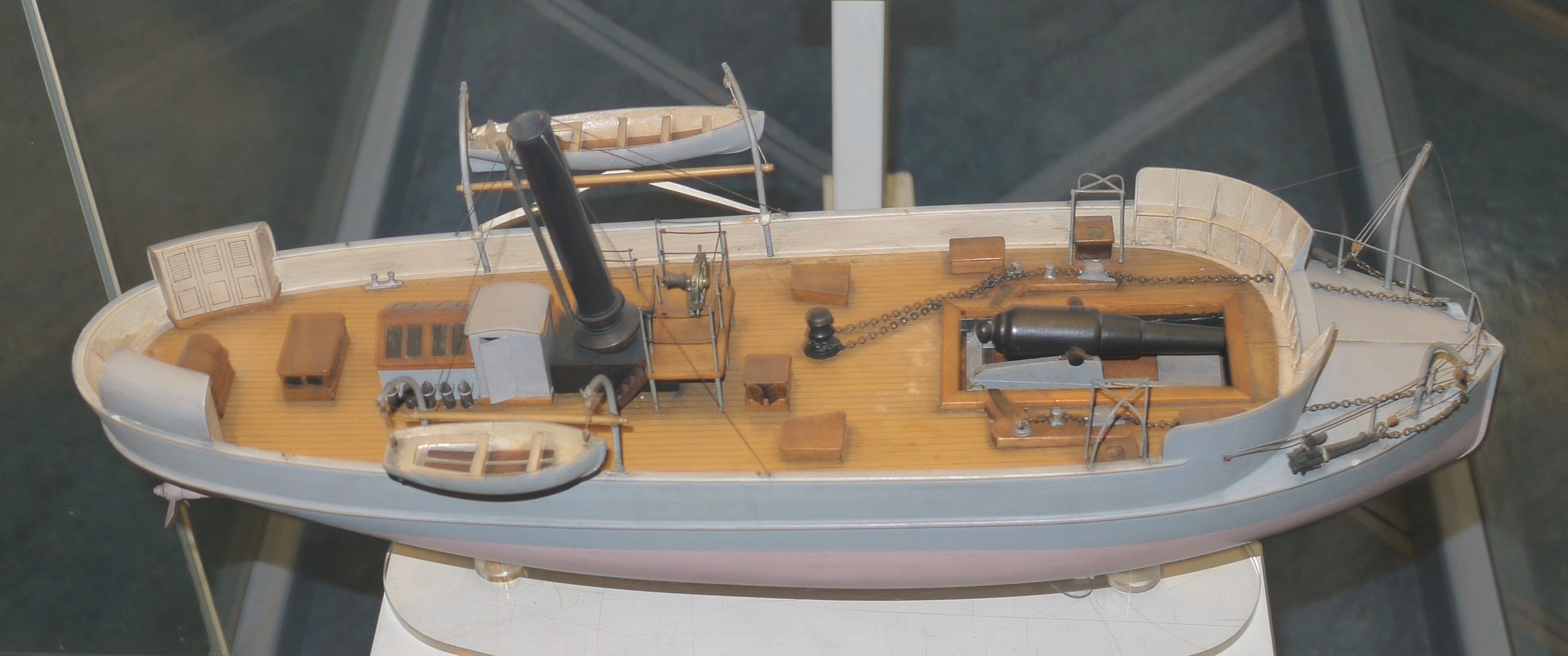 Photo of oa model of HMS arrow an Ant class flatiron gunboat